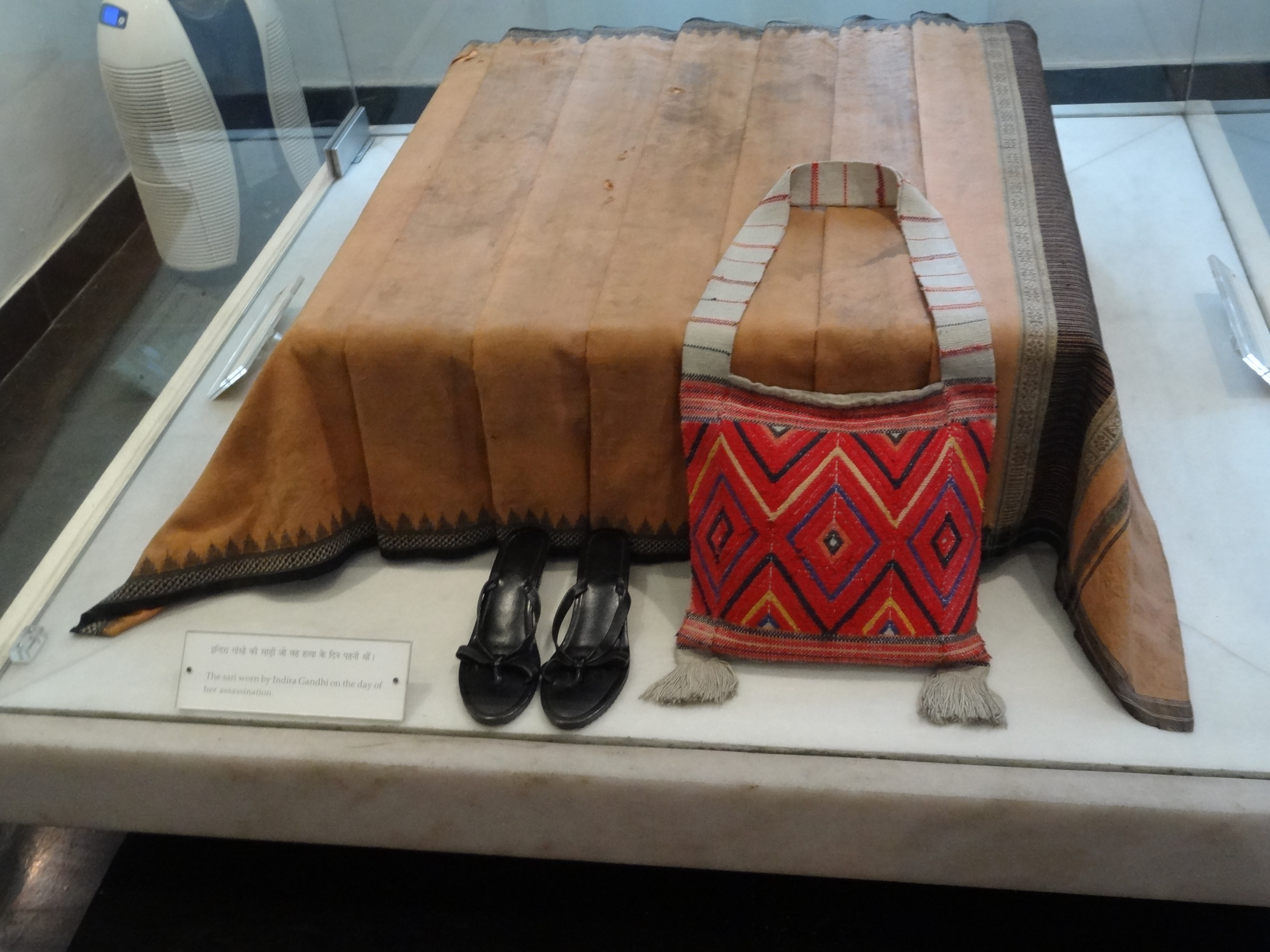 The saree Indira Gandhi wore at the time of her assassination